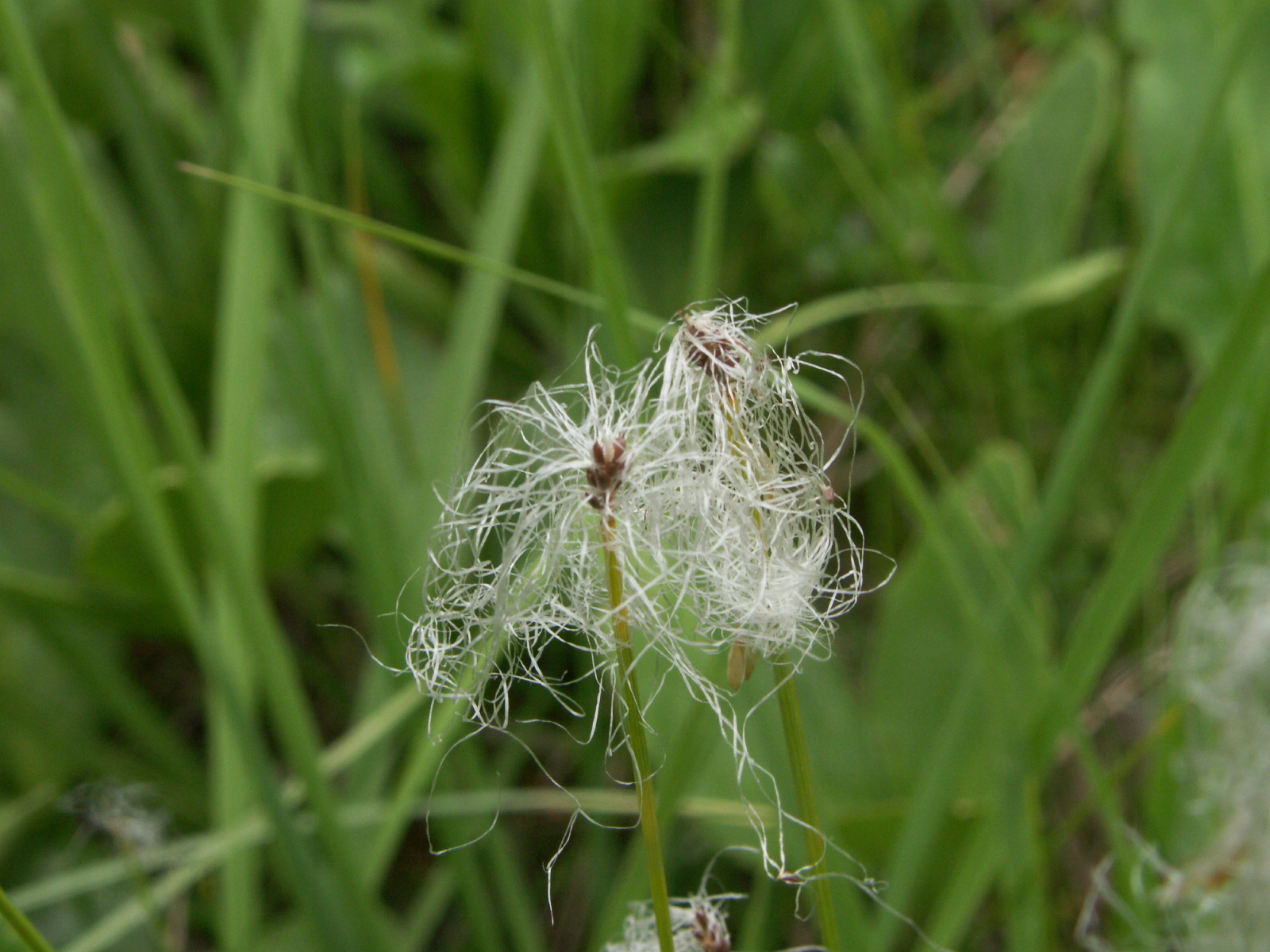 Trichophorum alpinum (Syn. Eriophorum alpinum) - Alpenhaarsimse